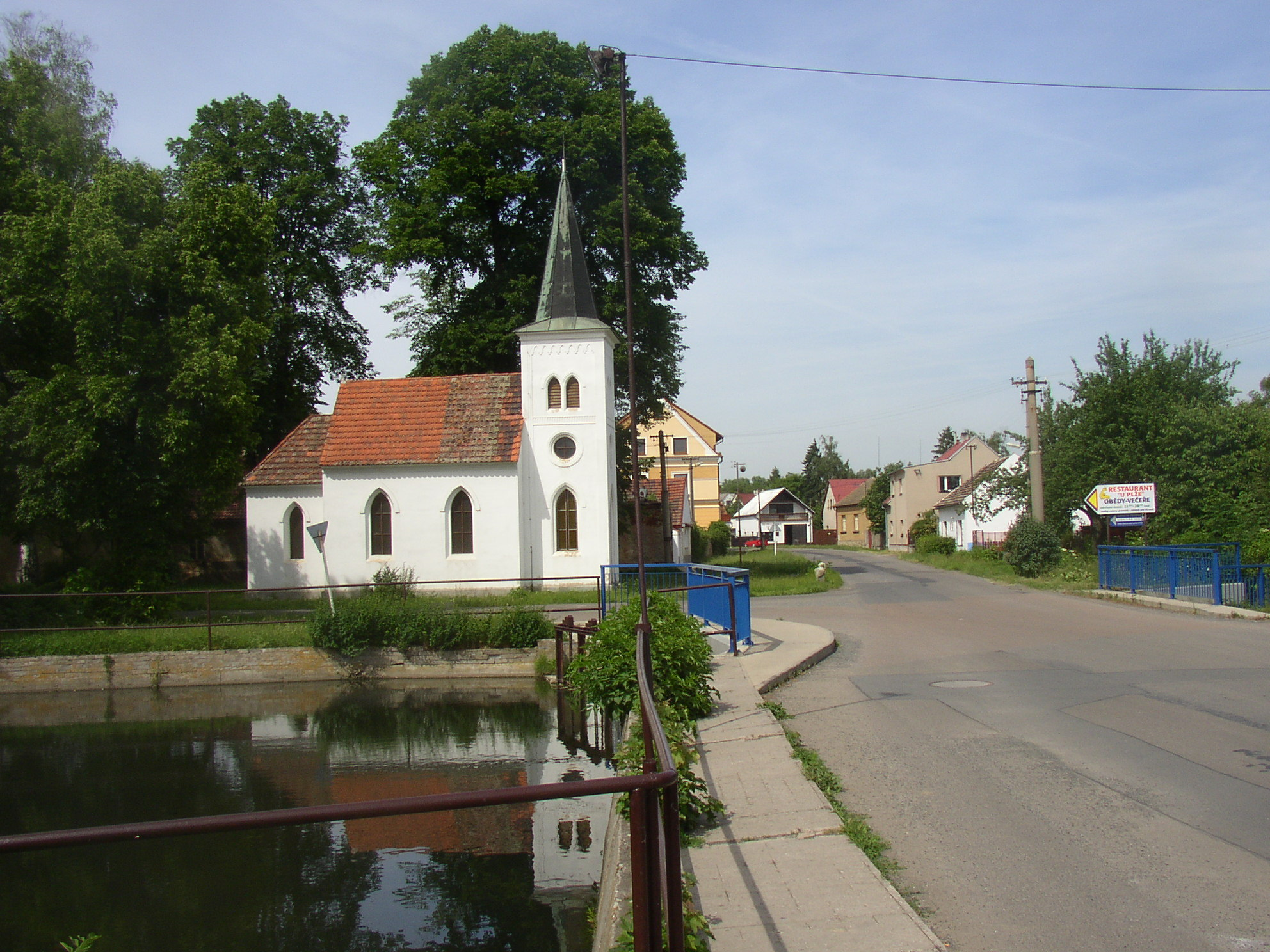 St Procopius chapel in Nučice (Prague-West District), Czech Republic.